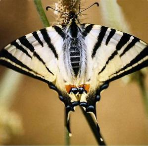 Iphiclides podalirius — Scarce Swallowtail. In the Aammiq Wetland Biosphere reserve, Lebanon.